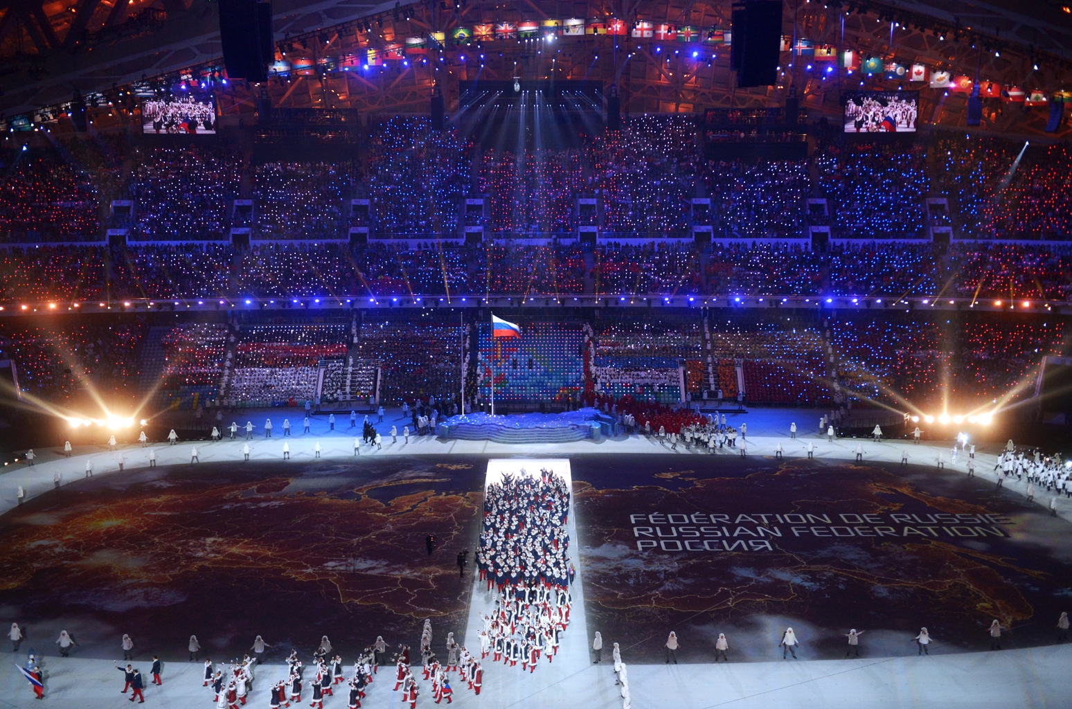 2014 Winter Olympics opening ceremony (2014-02-07)